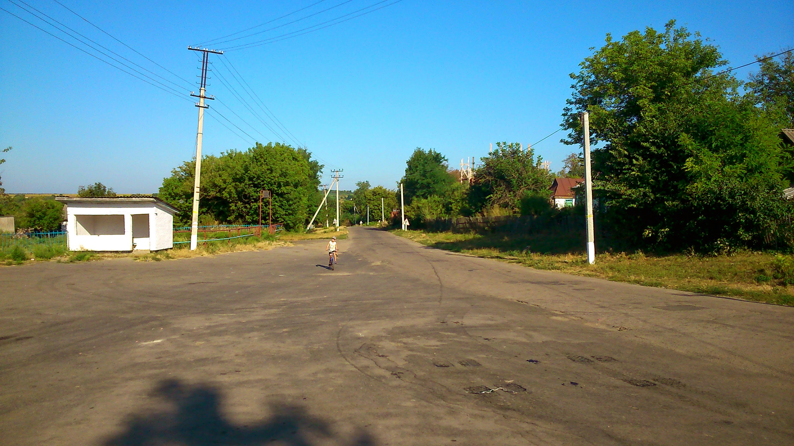 The village square in Nebelivka, Novoarkhanhelsk Raion, Kirovohrad Oblast, Ukraine